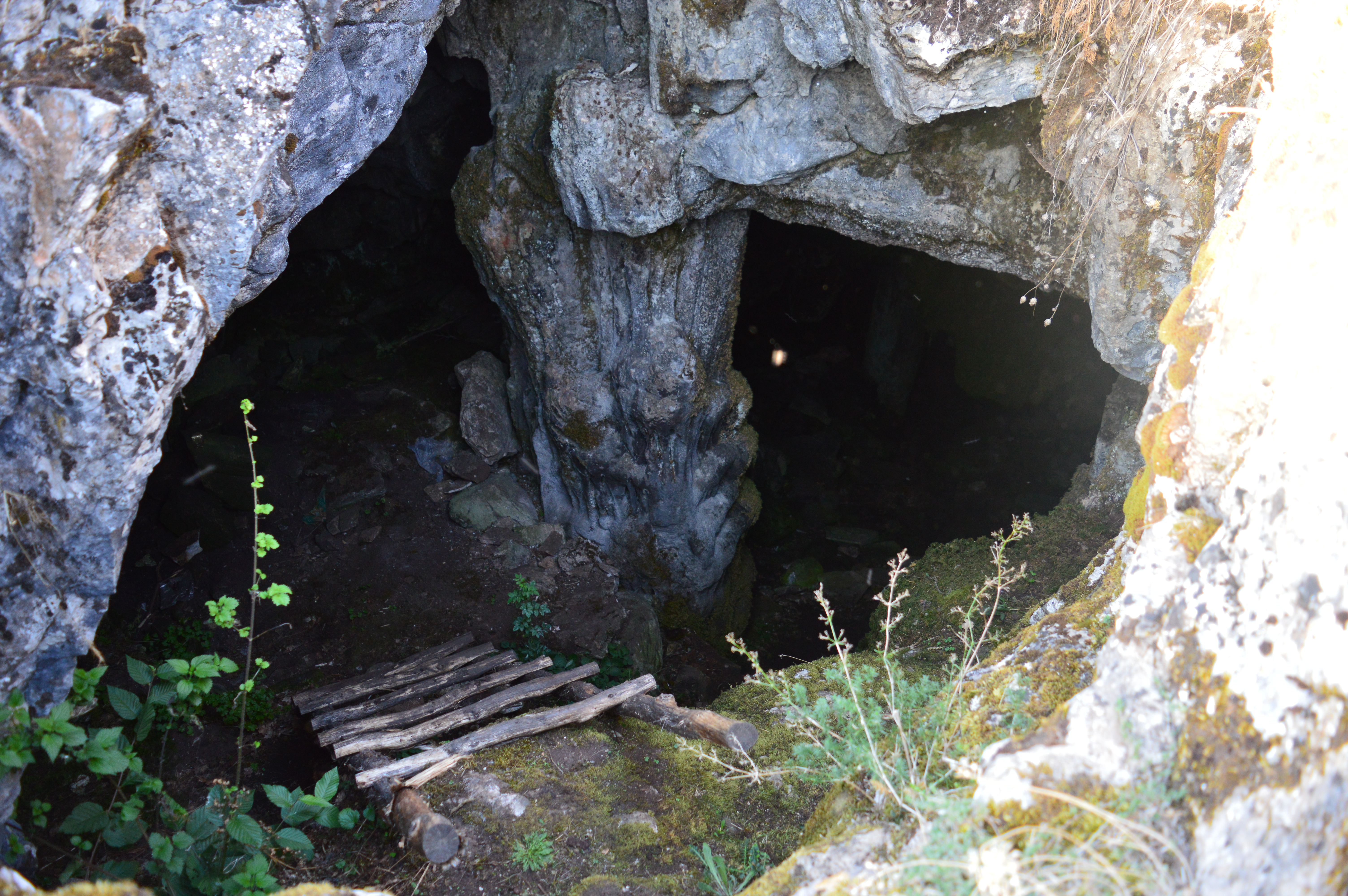 Zmejovica cave, Macedonia